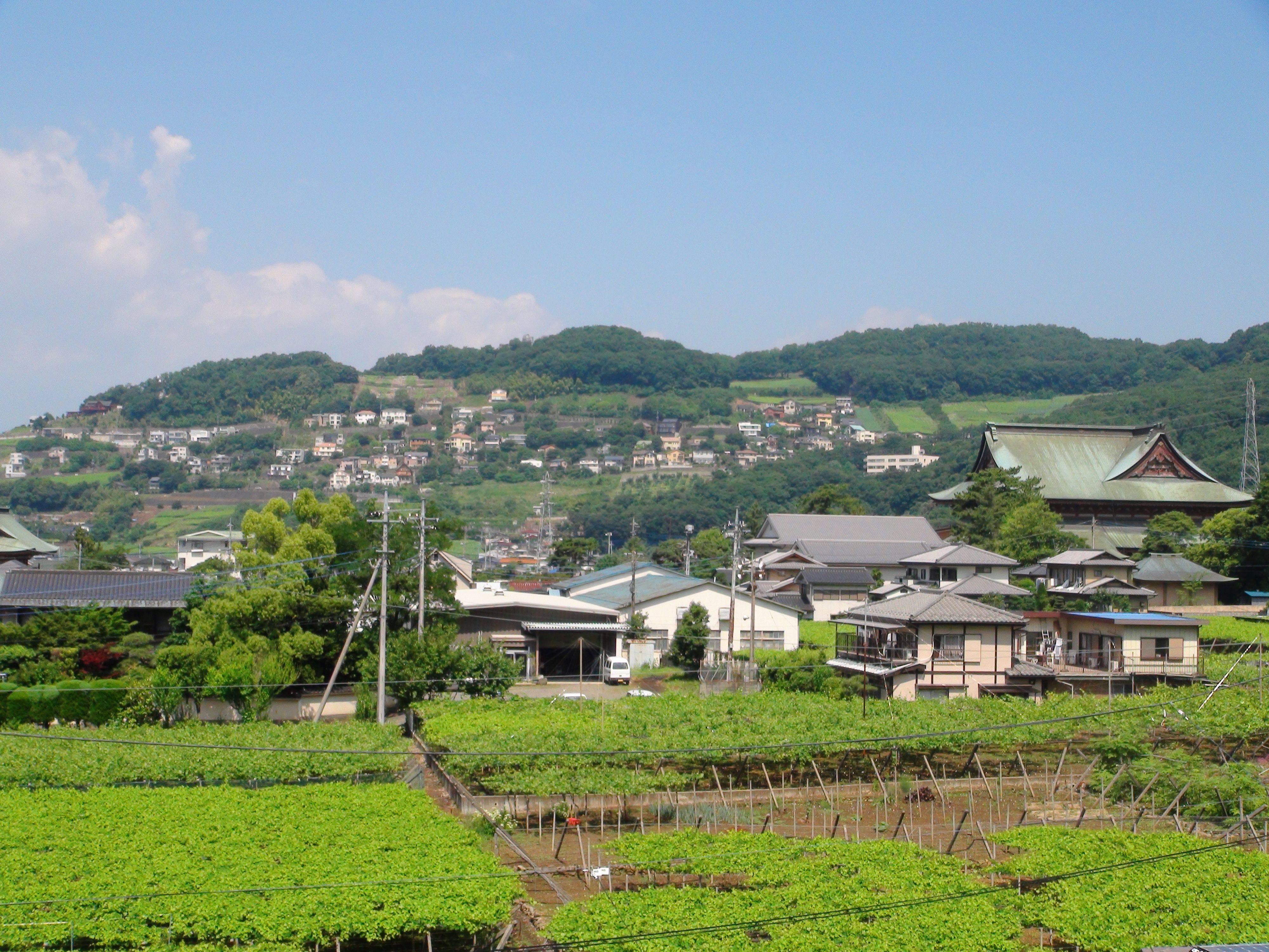 East slope of Mount Atago Kofu City